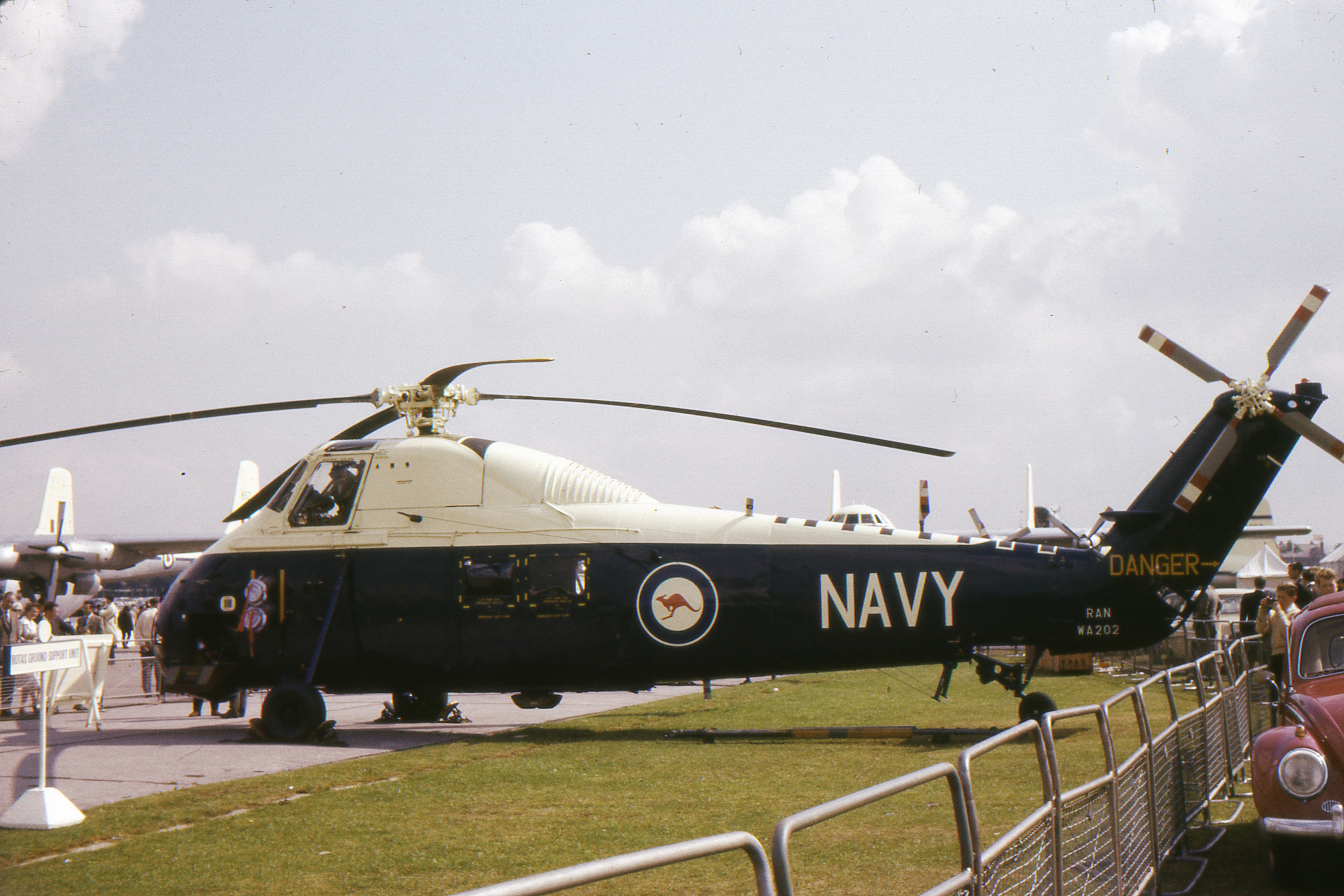 Royal Australian Navy Westland Wessex HAS.31, WA202 at the SBAC show Farnborough 8 September 1962.